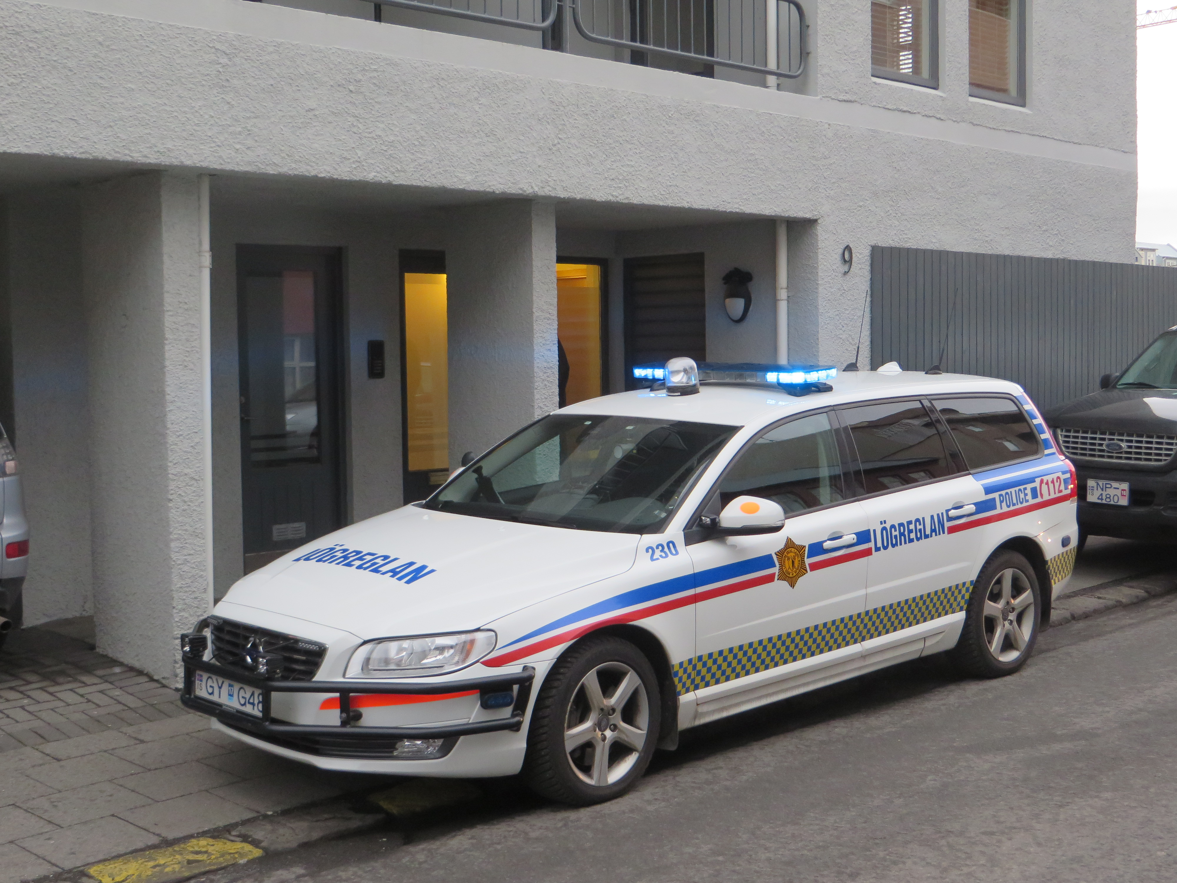 Volvo V70 - Icelandic police car